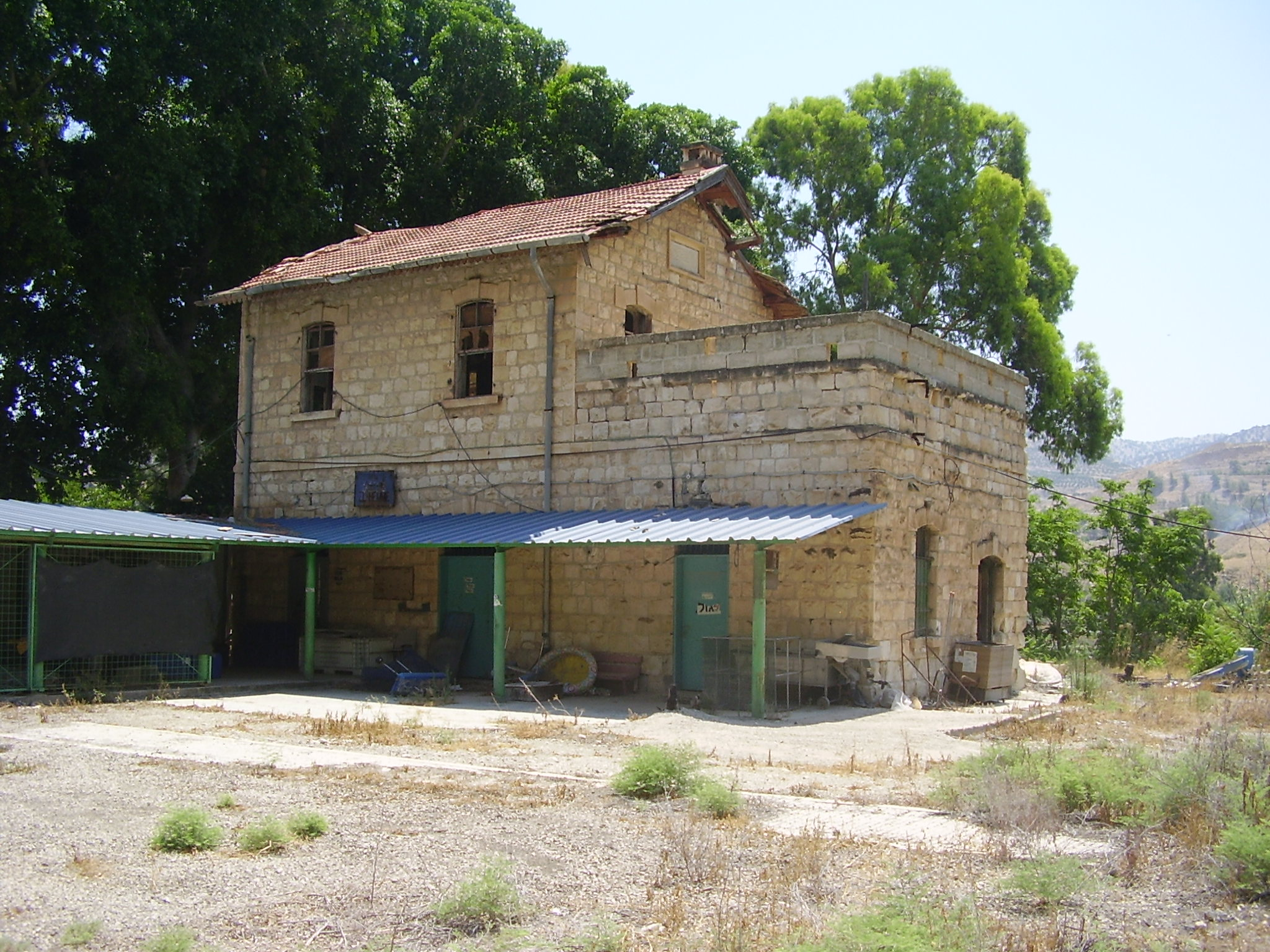 Turkish railway station at Hamat Gader